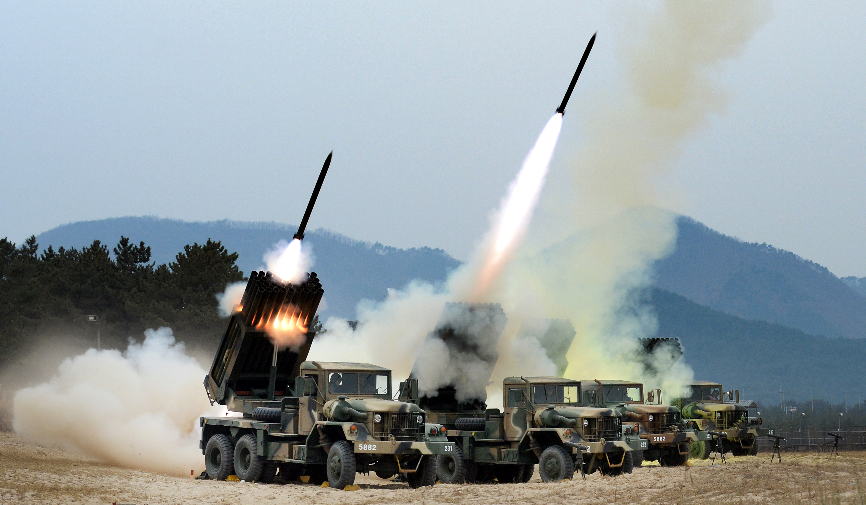 Rep. of Korea Army Kooryoung 130mm firing practice